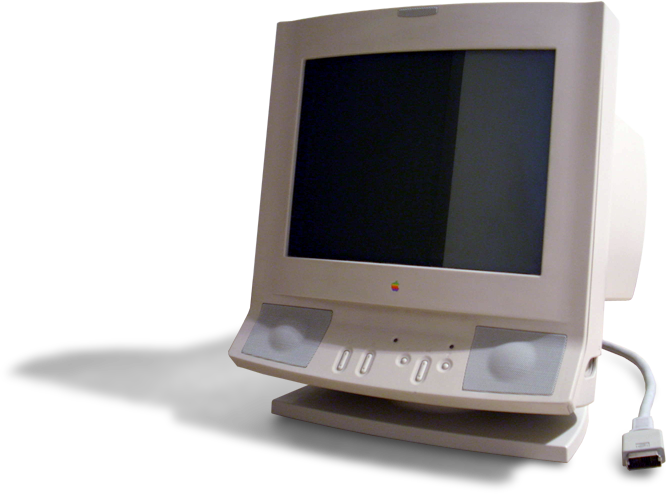 This is an image I took of one of my Apple AudioVision 14 Displays.